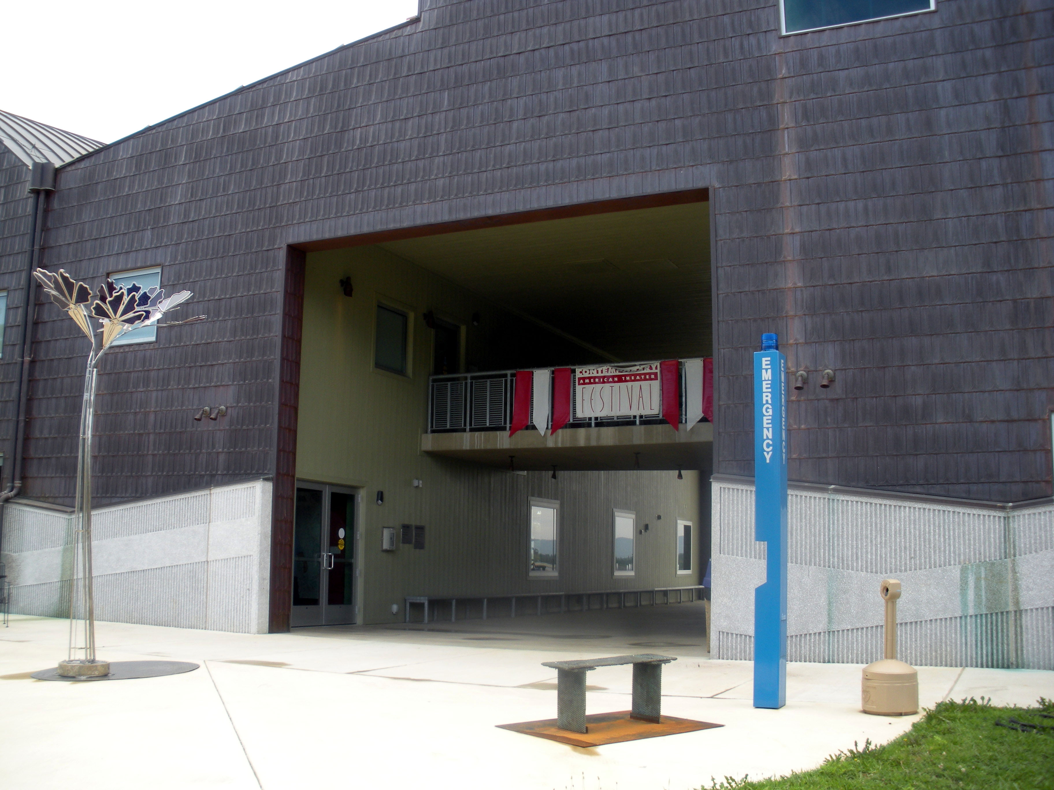 The entrance to the Shepherd University - Contemporary Arts Center I configured for the Contemporary American Theater Festival